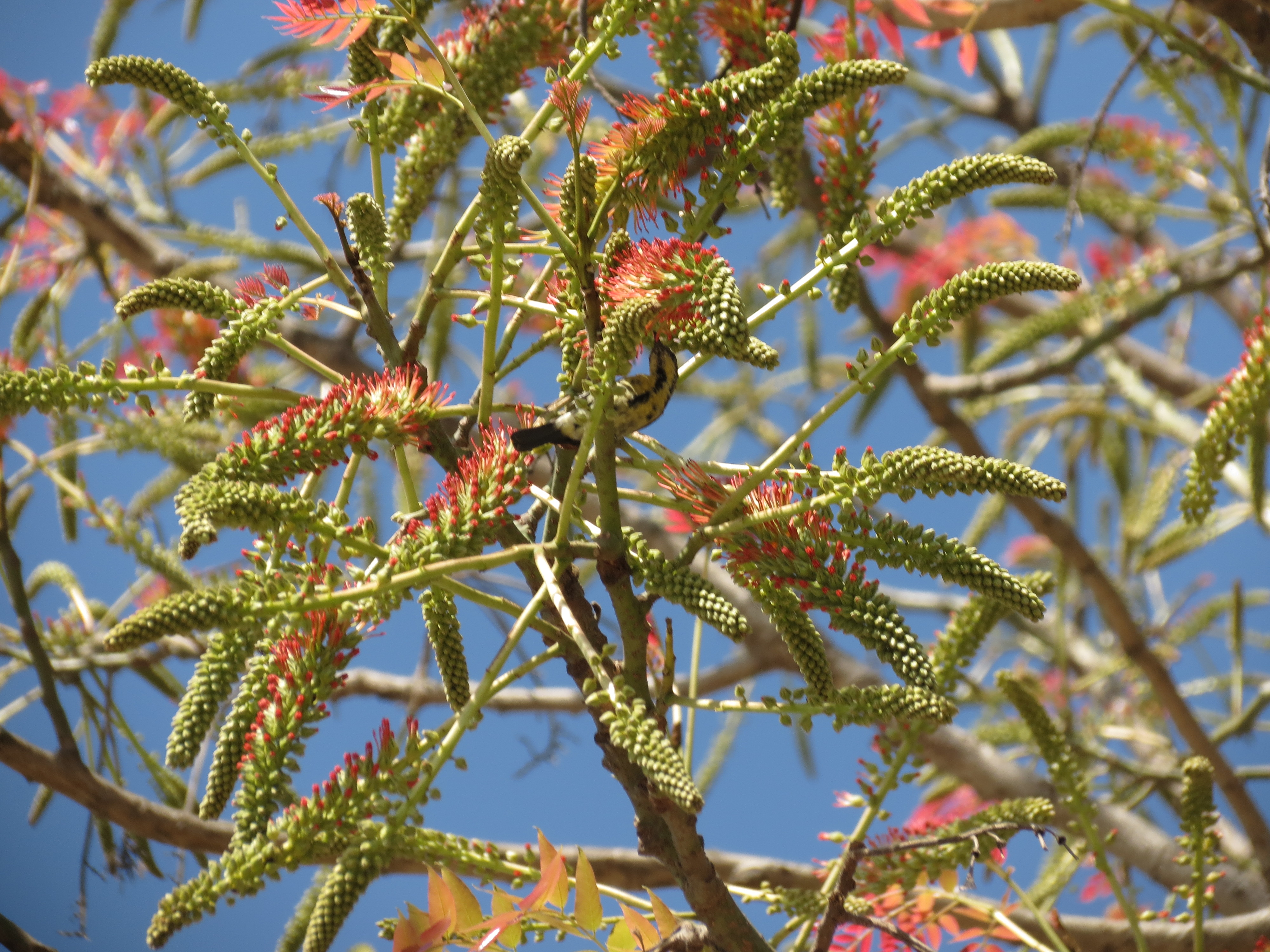 Acrocarpus fraxinifolius seen in Ramakrishna ashram Shivanahalli Bangalore